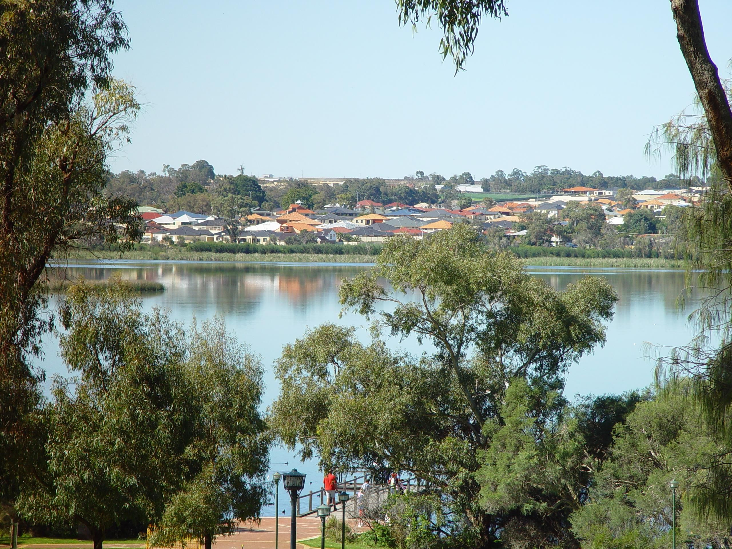 Image title: Lake Joondalup western Australia Image from Public domain images website